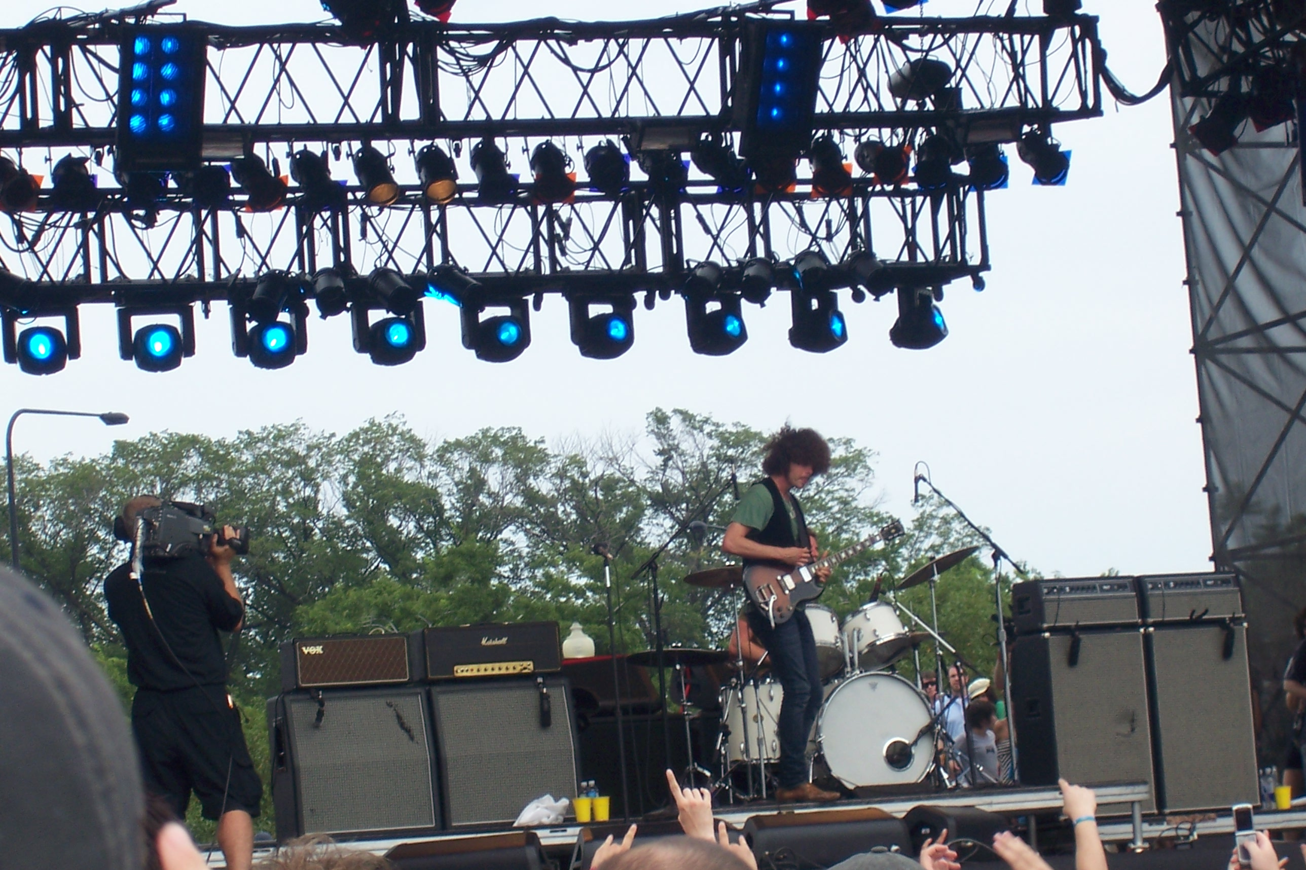 Wolfmother @ Lollapalooza 2006